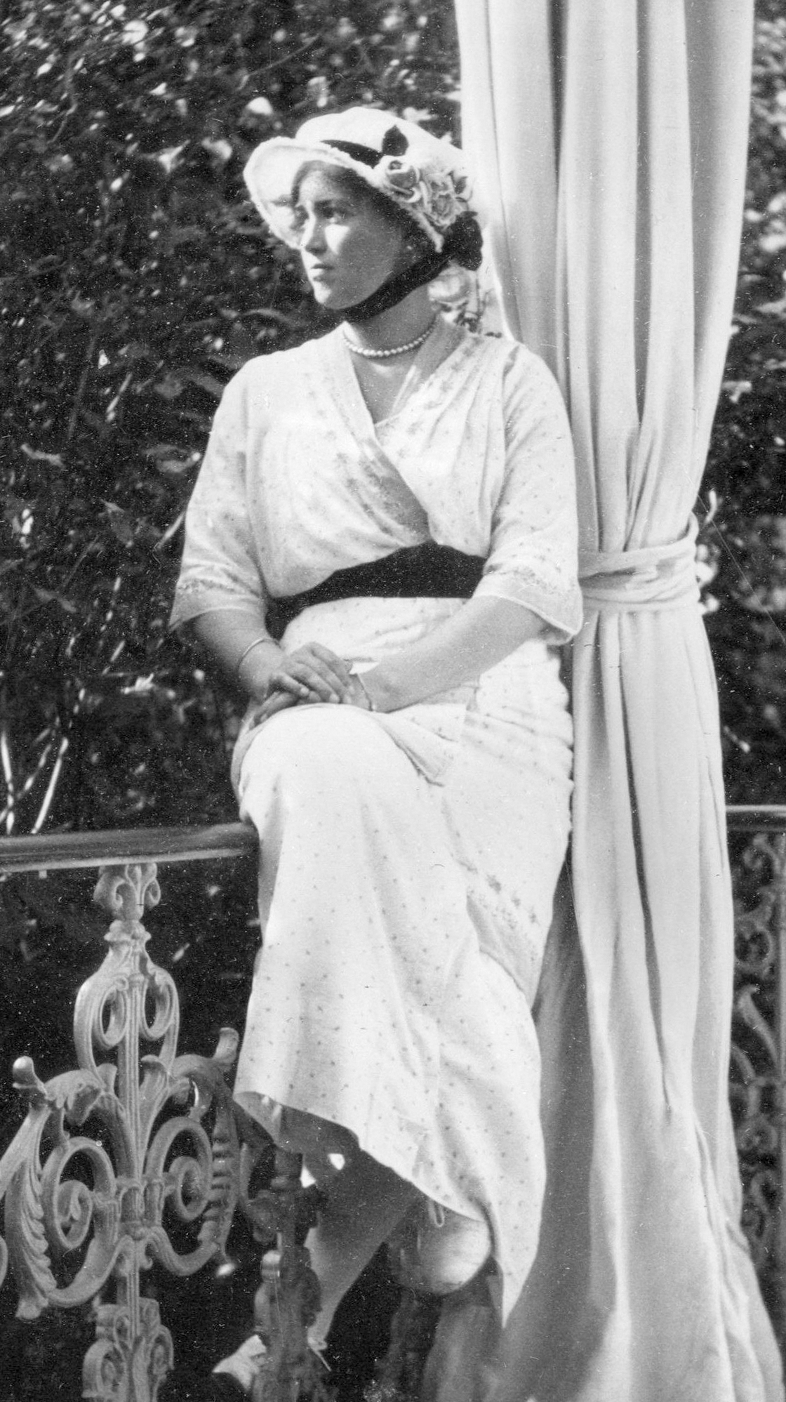 This photo of Grand Duchess Maria Nikolaevna of Russia was taken in 1915. It was located at . Because of its age, it is probably in the public domain, but is also used with the permission of the owner of the Web site